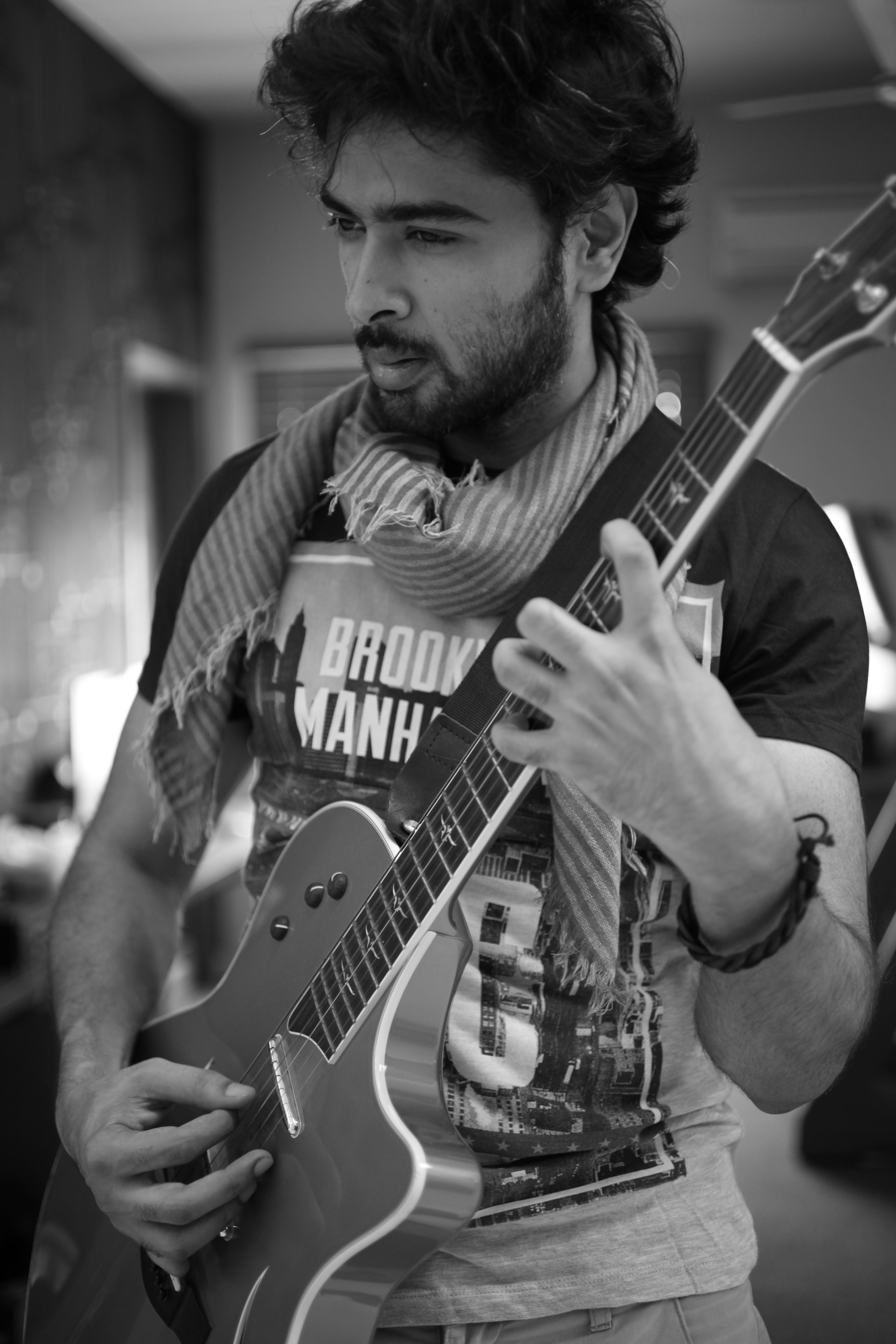 Shehzad Roy is a singer and social activist from Pakistan.